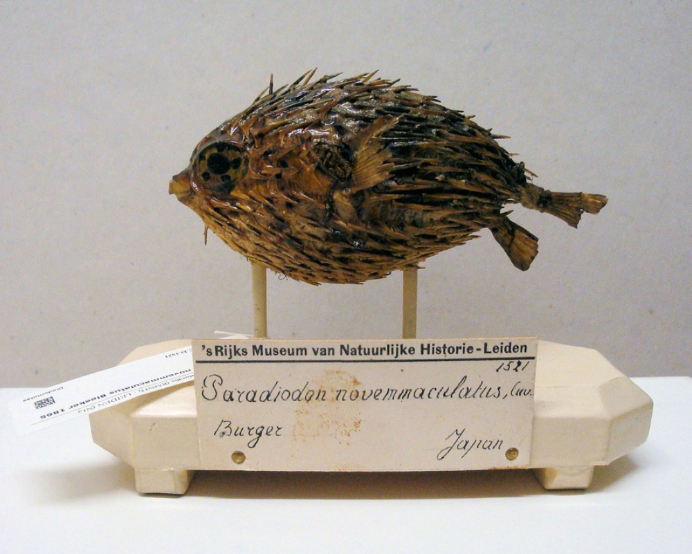 Taxidermied Japanese fish Paradiodon novemmaculatus/Diodon holocanthus Linnaeus from the Siebold Collection at Naturalis Biodiversity Center. Burger.